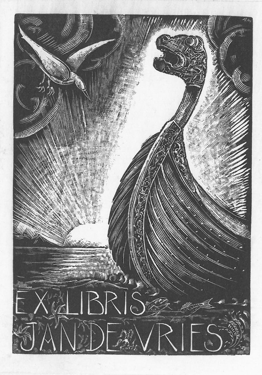 This is an image of an ex libris from a book belonging to Jan de Vries (11 February 1890–23 July 1964). (Specifically the copy of Kaarle Krohn, Magische Ursprungsrunen der Finnen, trans. by Otto Bussenius, FF Communications, 52 (Helsinki: Suomalainen tiedeakatemia, 1924) held in the Brotherton Library, University of Leeds.) The bird top-left may be a northern gannet (Morus bassanus), known in Dutch as 'jan-van-gent' and thus conceivably a pun on De Vries's name.